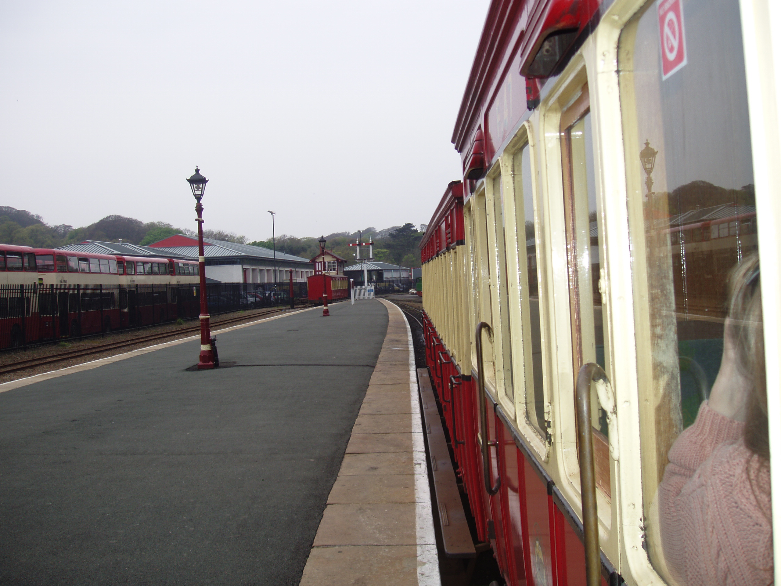 Platform at Douglas railway station as the Isle of Man Steam Railway departs for Port Erin.